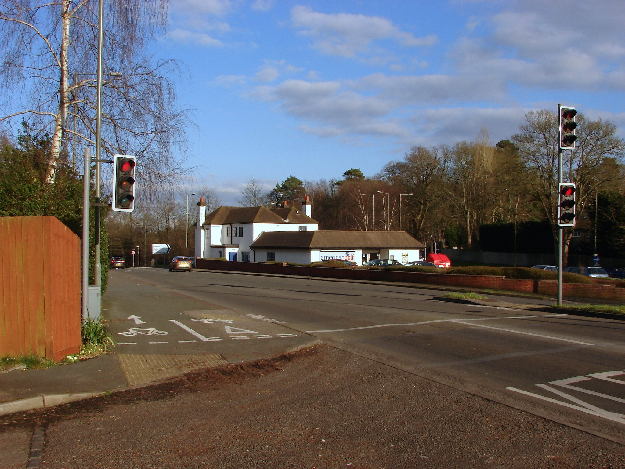 The Jolly Farmer roundabout